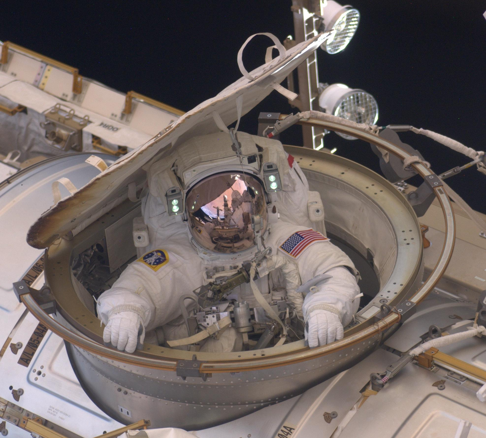 Astronaut Drew Feustel re-enters the space station after completing n 8-hour, 7-minute spacewalk.